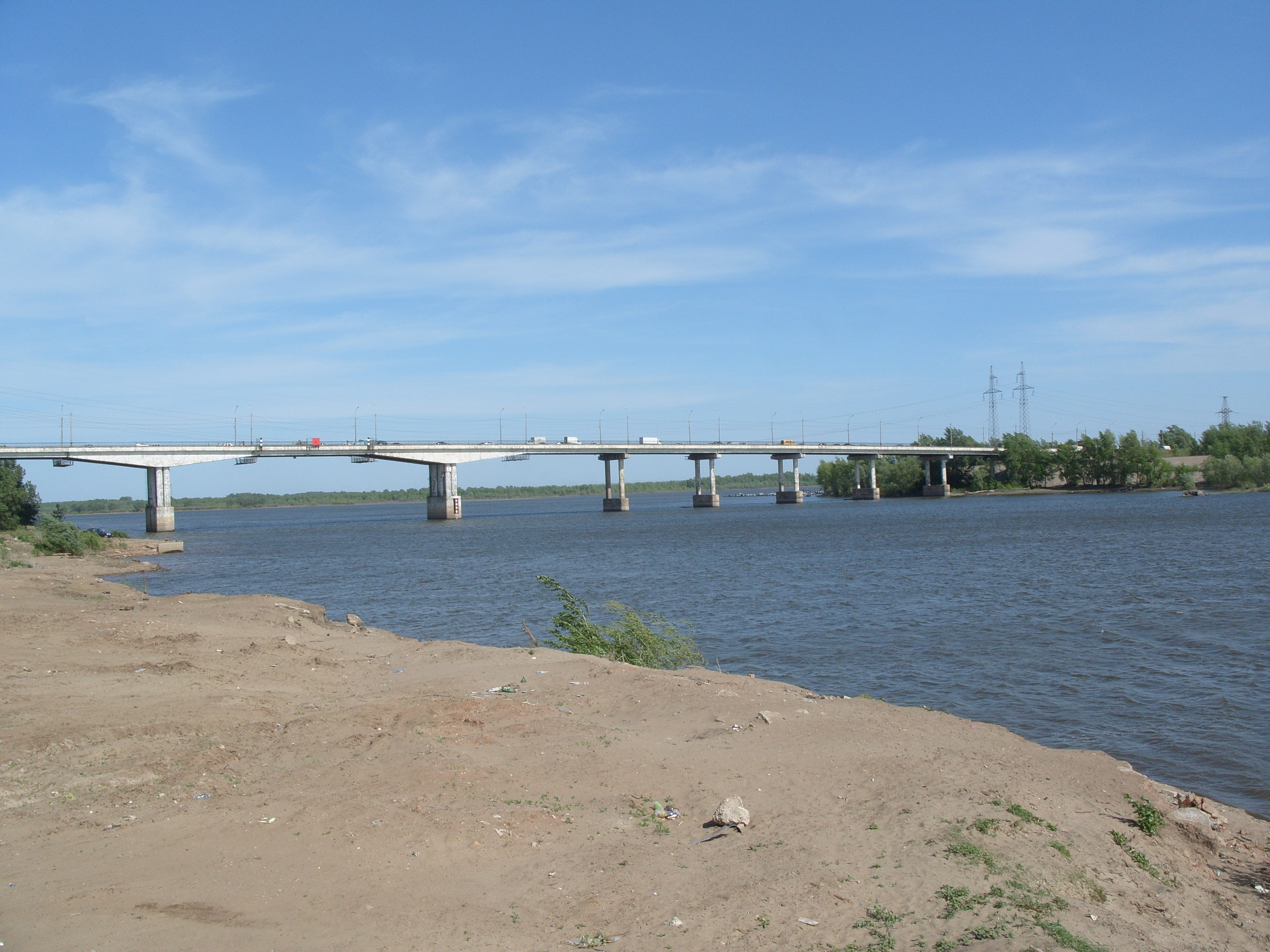 South_bridge_ over Samara river